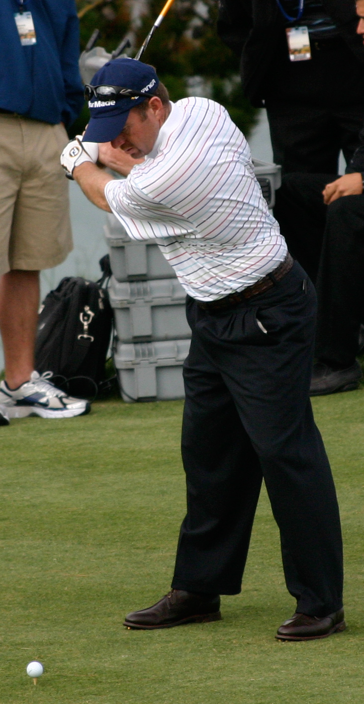 Rod Pampling during the Wednesday practice round before the 2008 US Open at Torrey Pines.